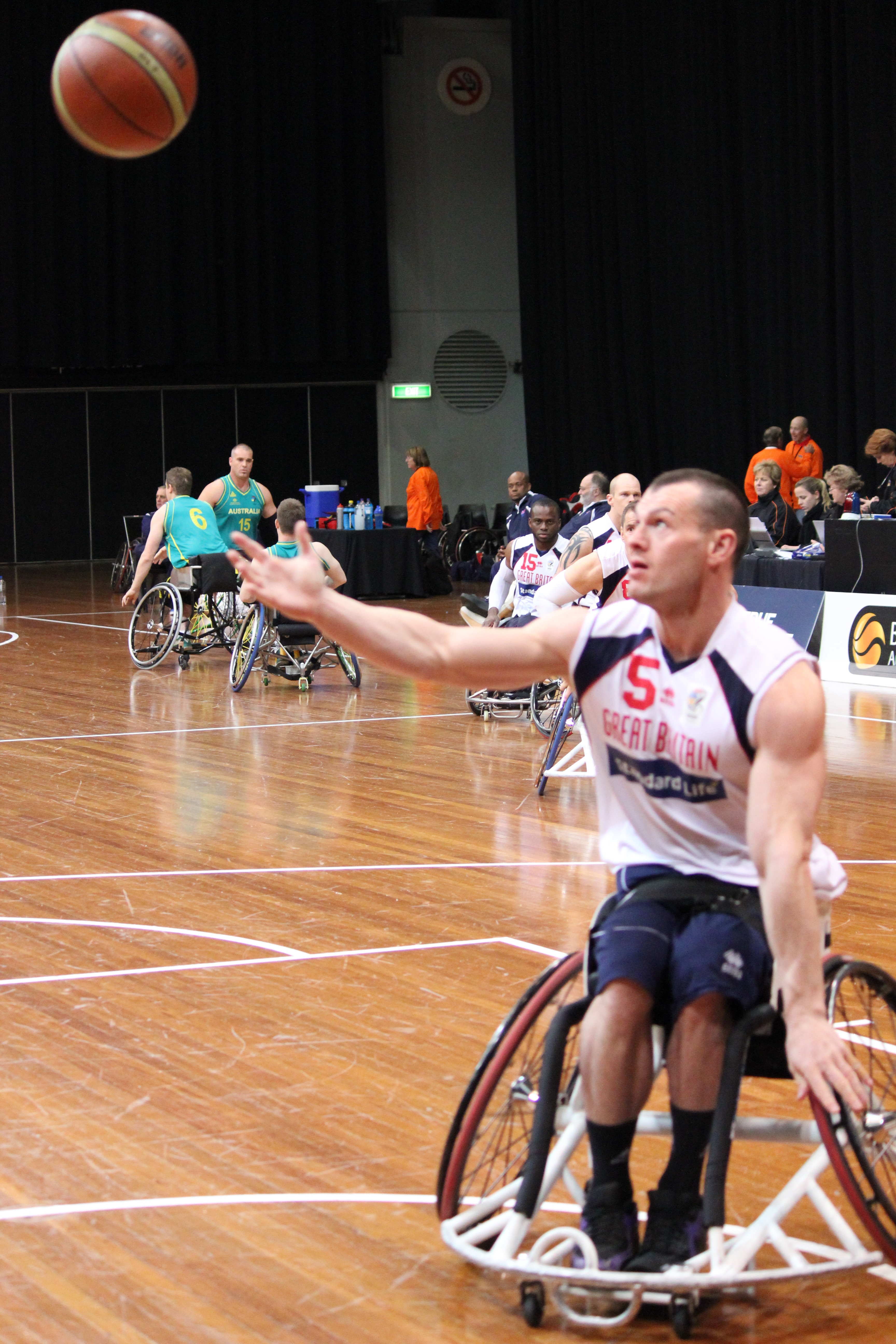 Great Britain vs Australia men's national wheelchair basketball team at Gliders & Rollers World Challenge on 21 July 2012. Dan Highcock.